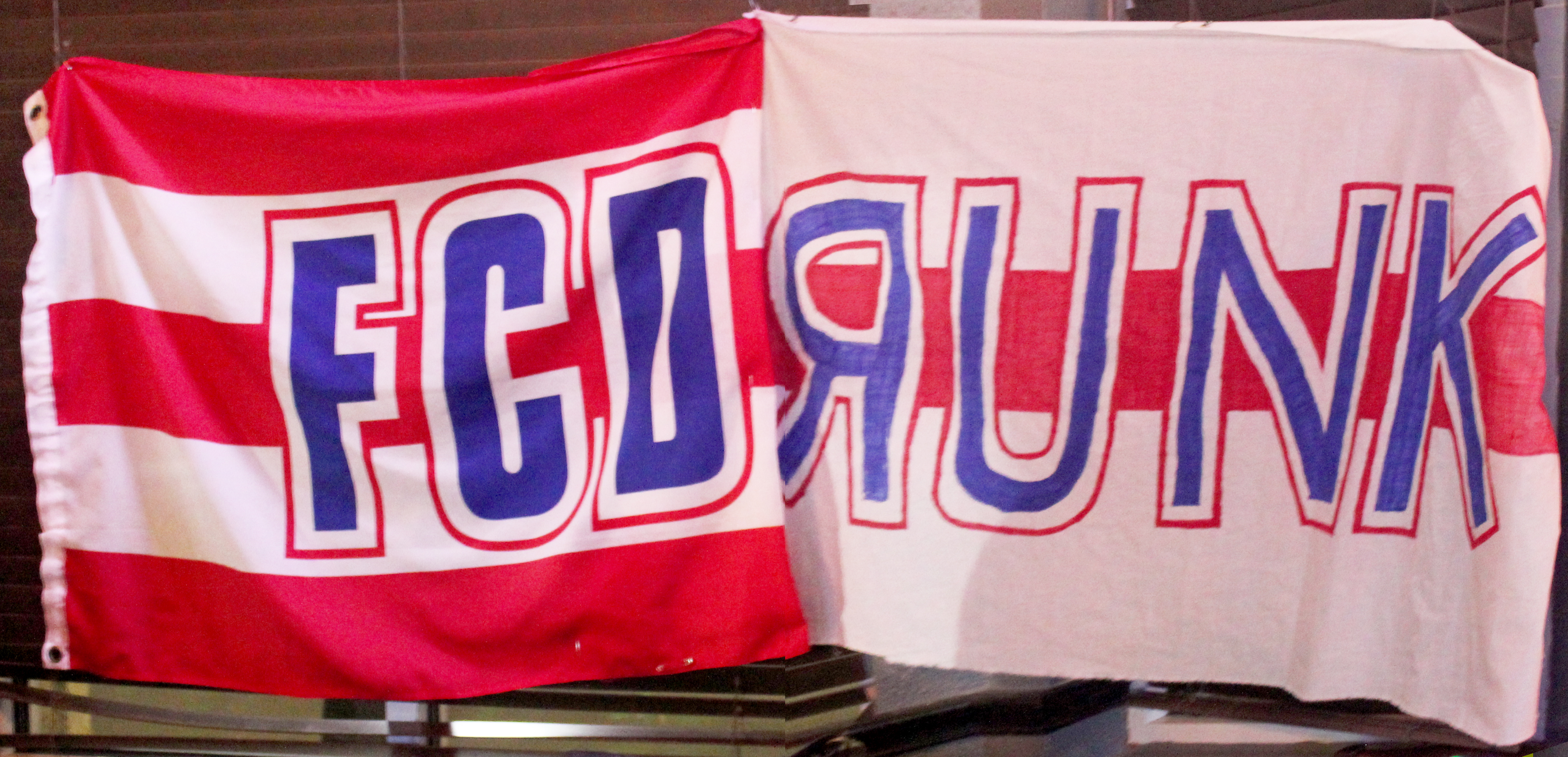 The FCDrunk banner which inspired the founding of FCDrunk, later the Dallas Beer Guardians. Pictured on July 2, 2016 at the 5th anniversary celebration held in Frisco, TX.